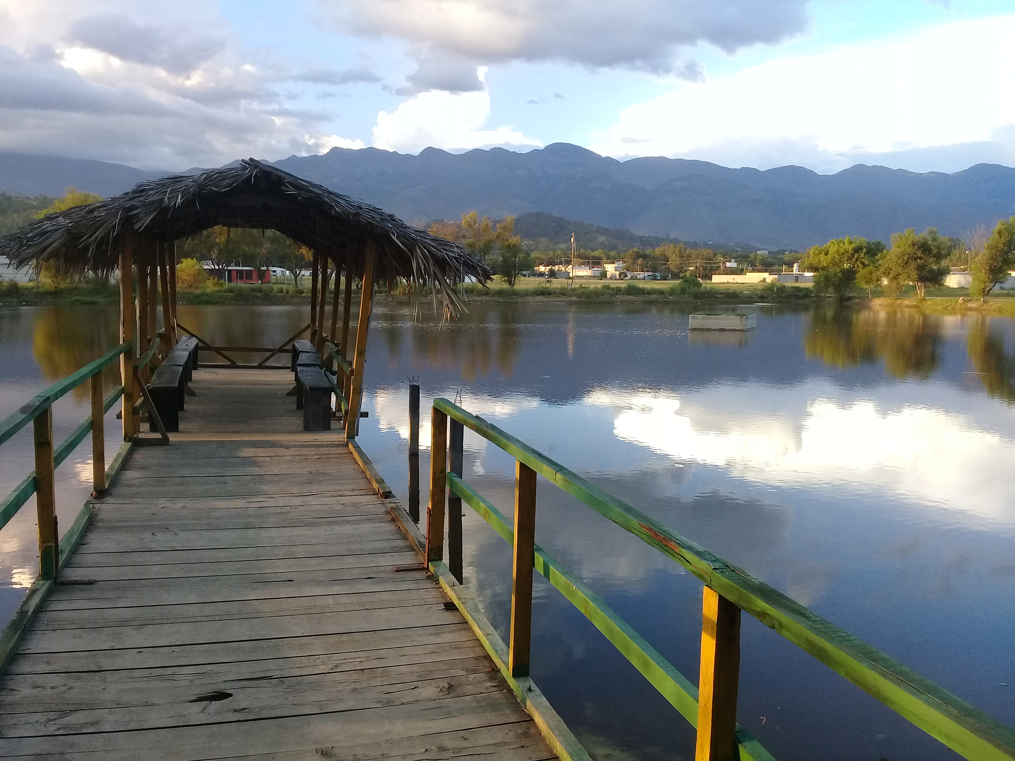 Laguna de Zaculeu, Huehuetenango Department, Guatemala